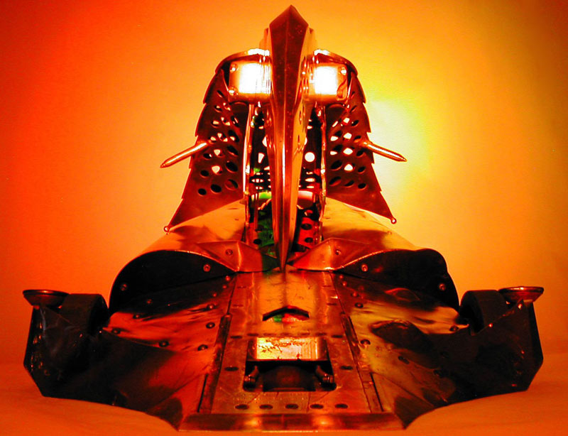 A front-on photograph of the Robot Wars double world champion Razer under strong orange lighting.